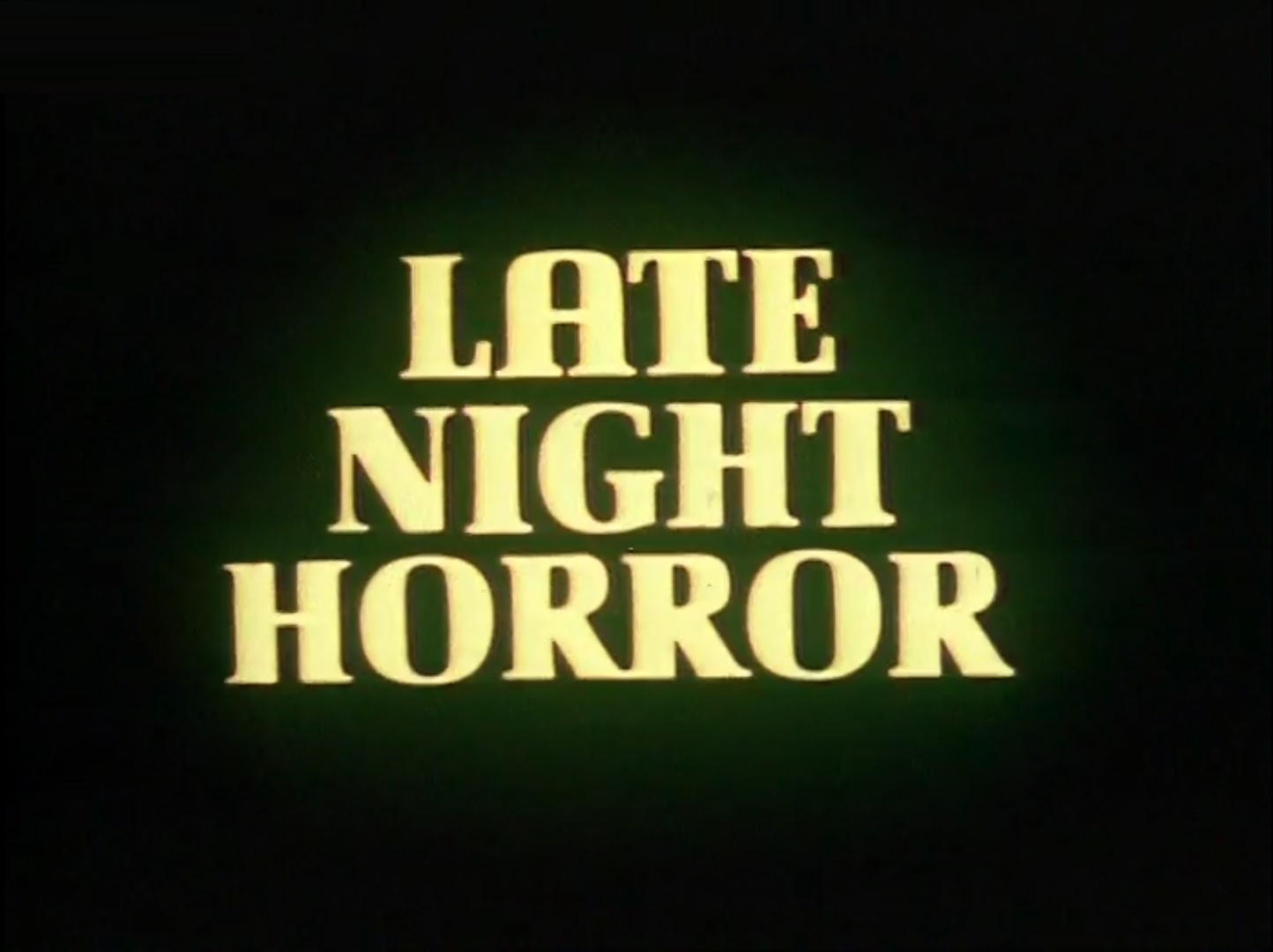 Late Night Horror titles